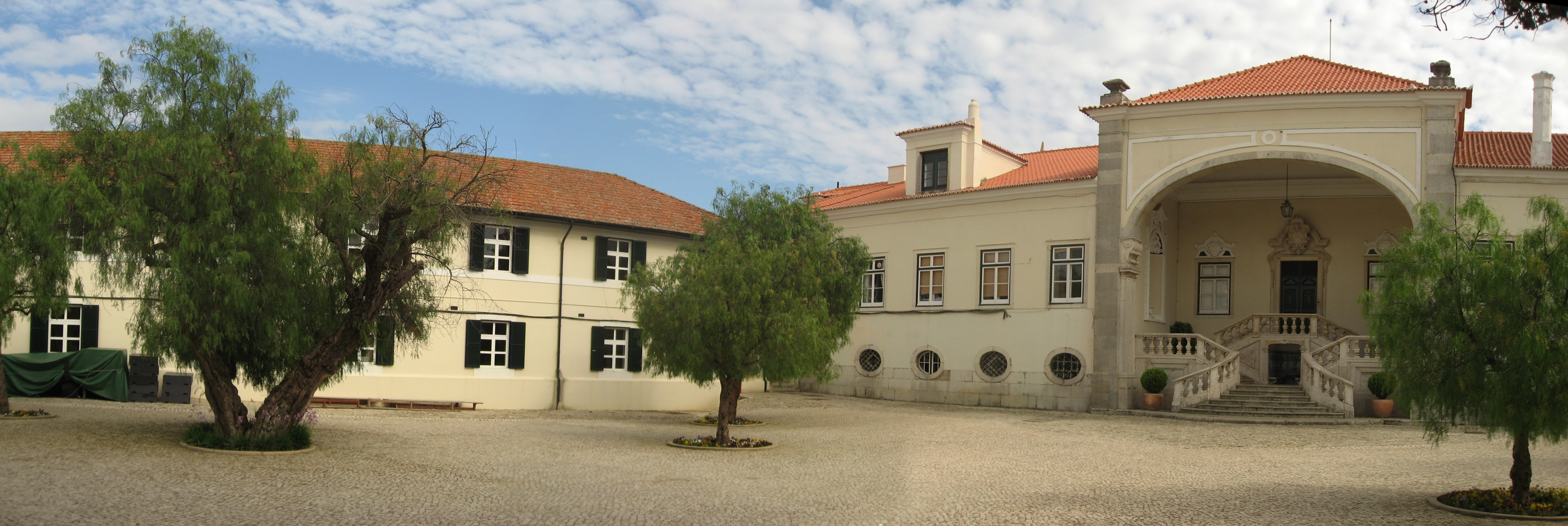 Pátio Interior St. Julian's School, Carcavelos